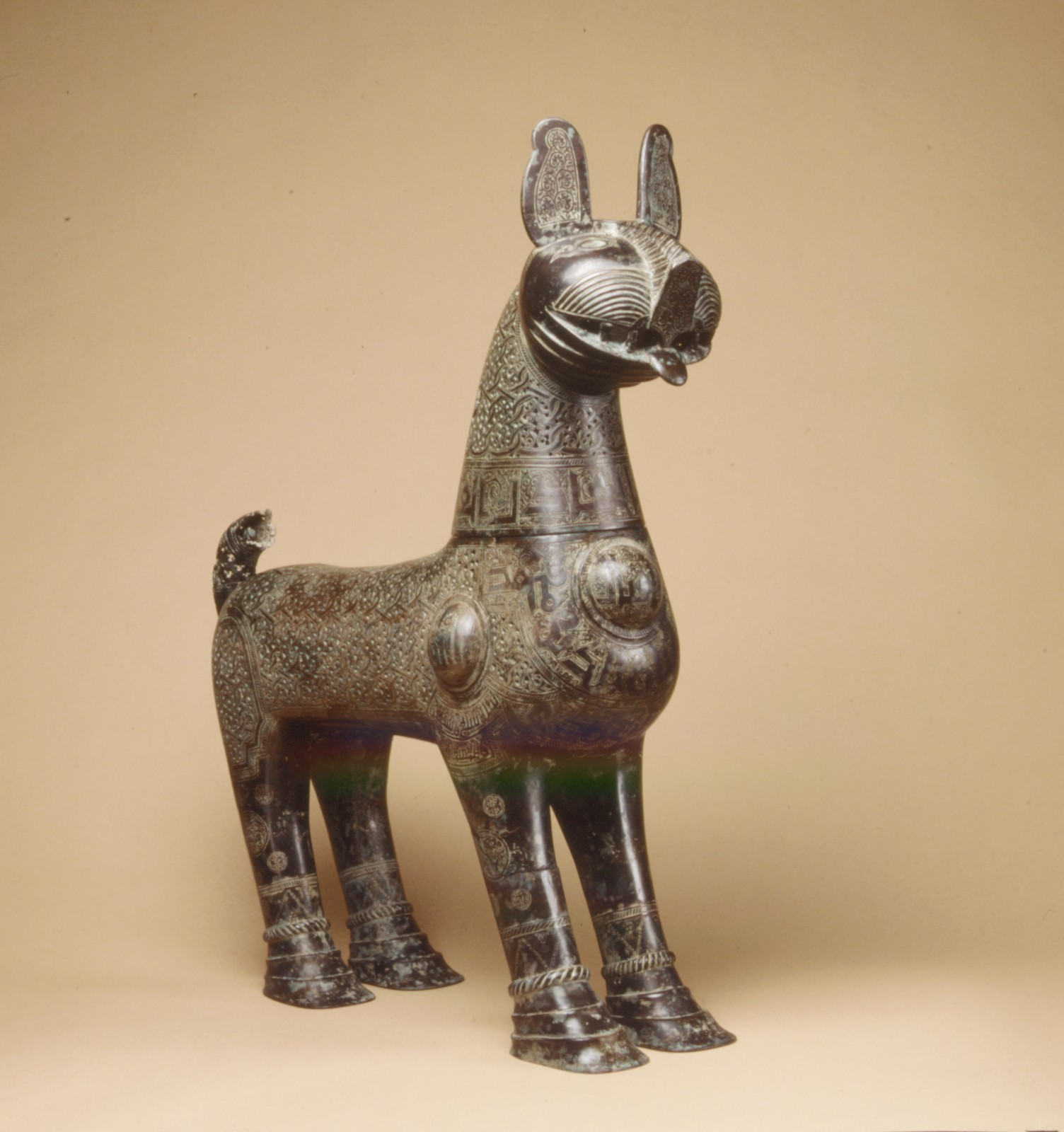 Incense burner; Metal